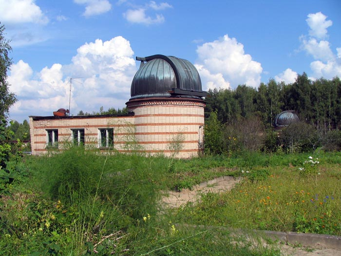 Zeiss-600 dome on ZNB station (Zvenigorod, Moscow region)